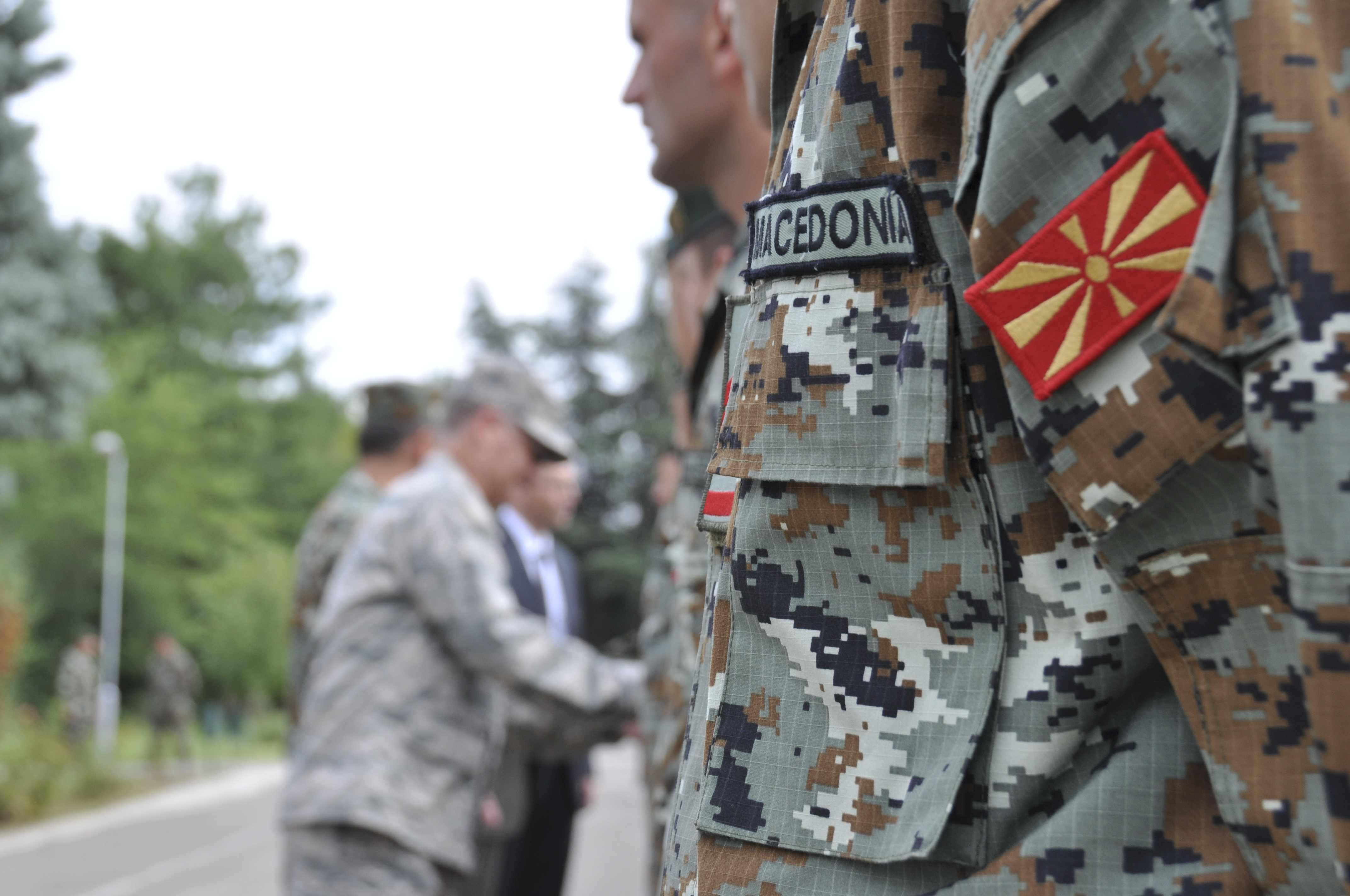 Seventy-nine soldiers from the army of the Republic of Macedonia receive the Meritorious Unit Citation and Vermont Commendation Medals at an award ceremony at Illenden Barracks, Skopje, Macedonia, Sept. 12, 2013. Soldiers were honored for their service with the 86th Infantry Brigade Combat Team, in support of Operation Enduring Freedom in Afghanistan in 2010. (U.S. Air National Guard photo by Capt. Dyana Allen)